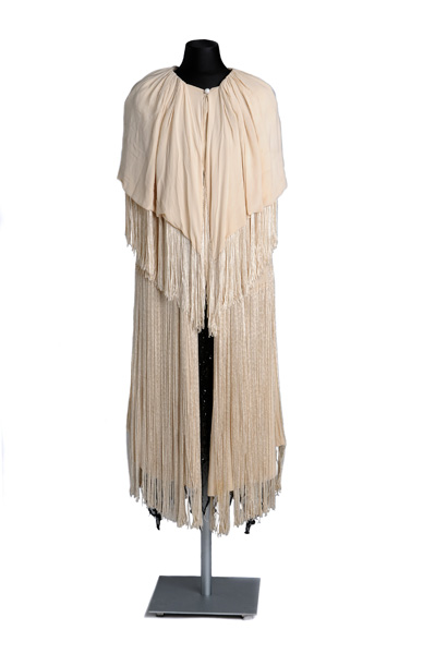 Ivory fringed cape of silk crepe.